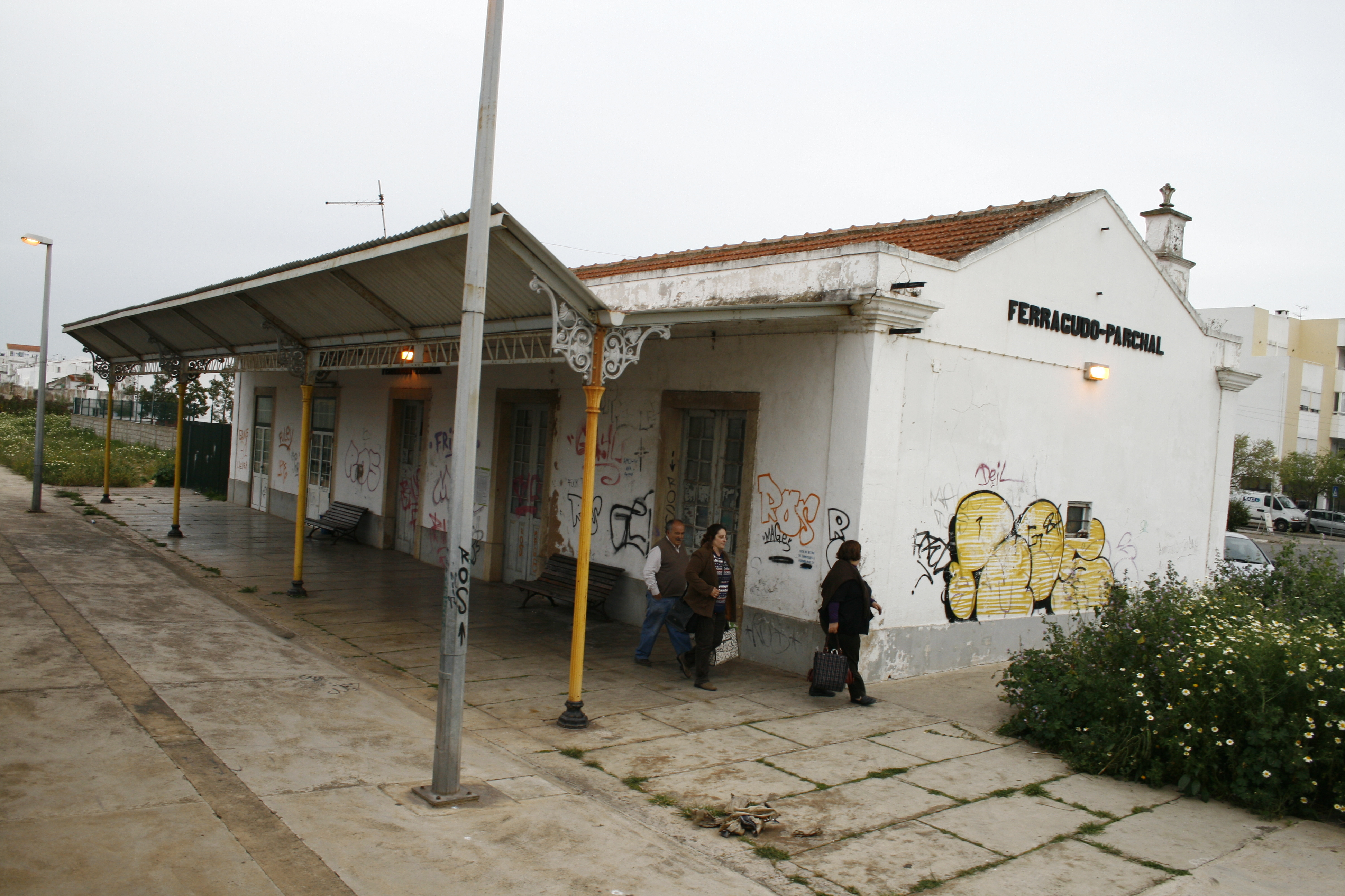 Ferragudo - Parchal Halt, in the Algarve Line, Portugal.